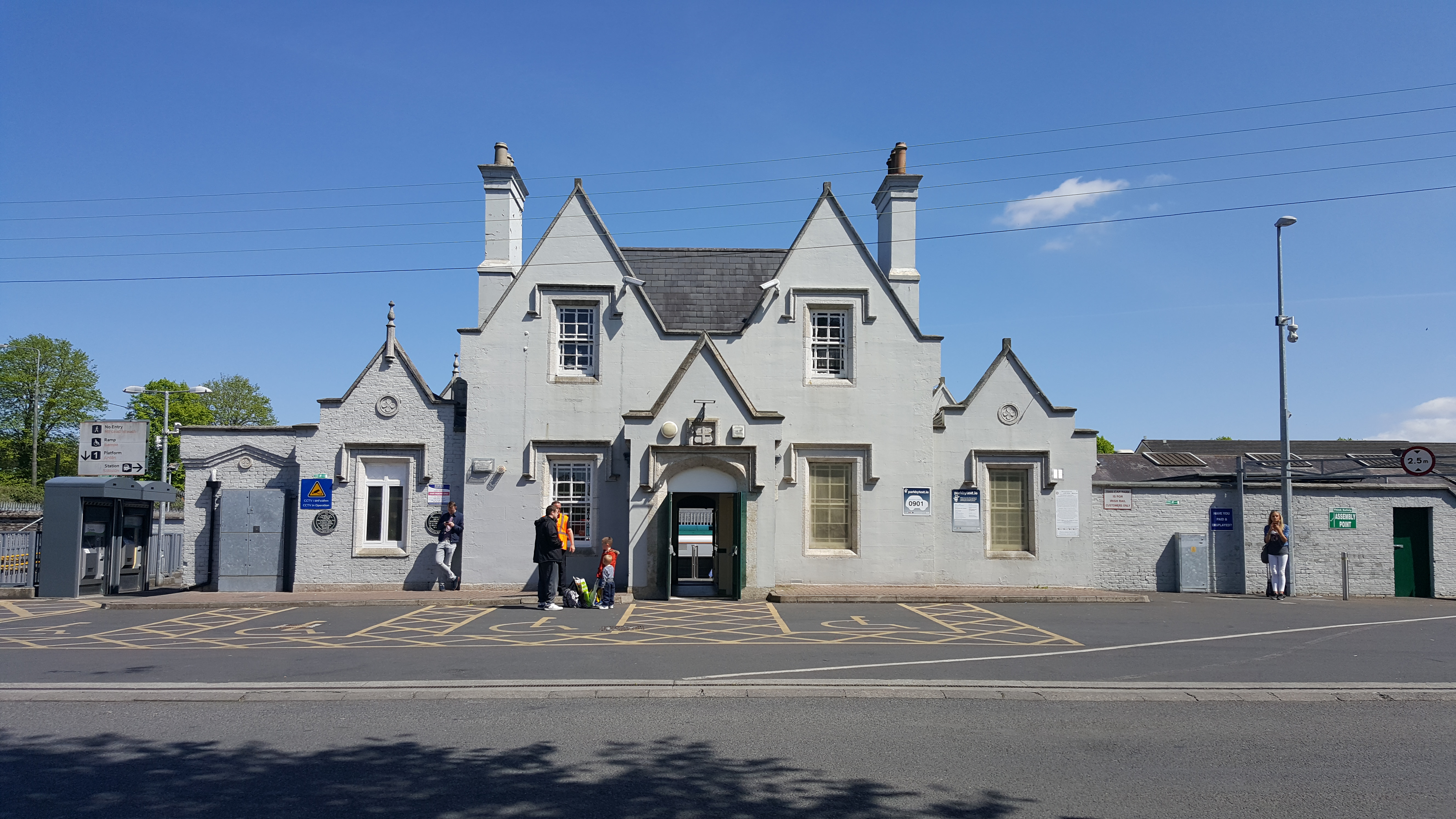 Front of Athy Railway Station, Co. Kildare, Ireland